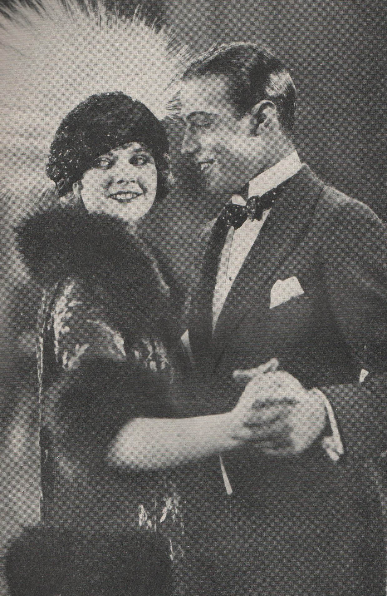 Still from the American film The Four Horsemen of the Apocalypse (1921) with Alice Terry and Rudolph Valentino.